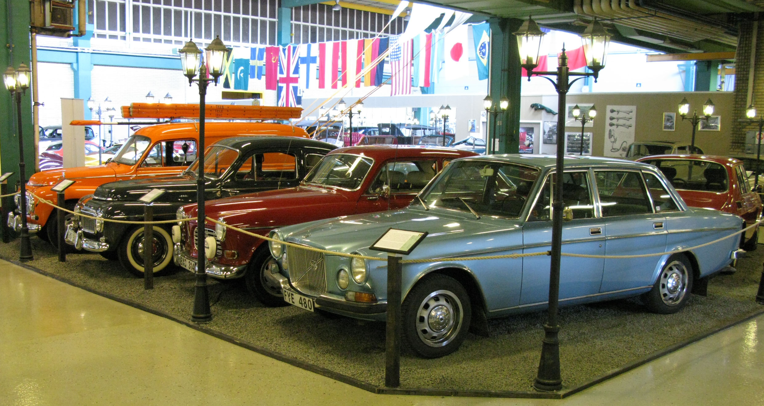 Volvo automobiles at Autoseum.